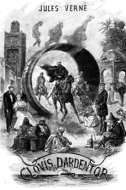 An ilustration from the novel "Clovis Dardentor" by Jules Verne drawn by Léon Benett.